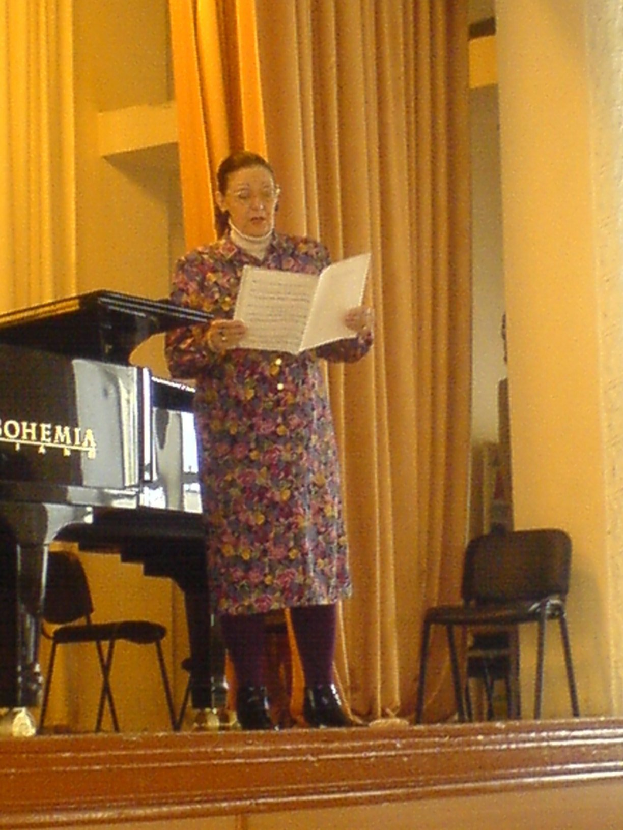 People's Artist of Ukraine Lyudmila Shirina.